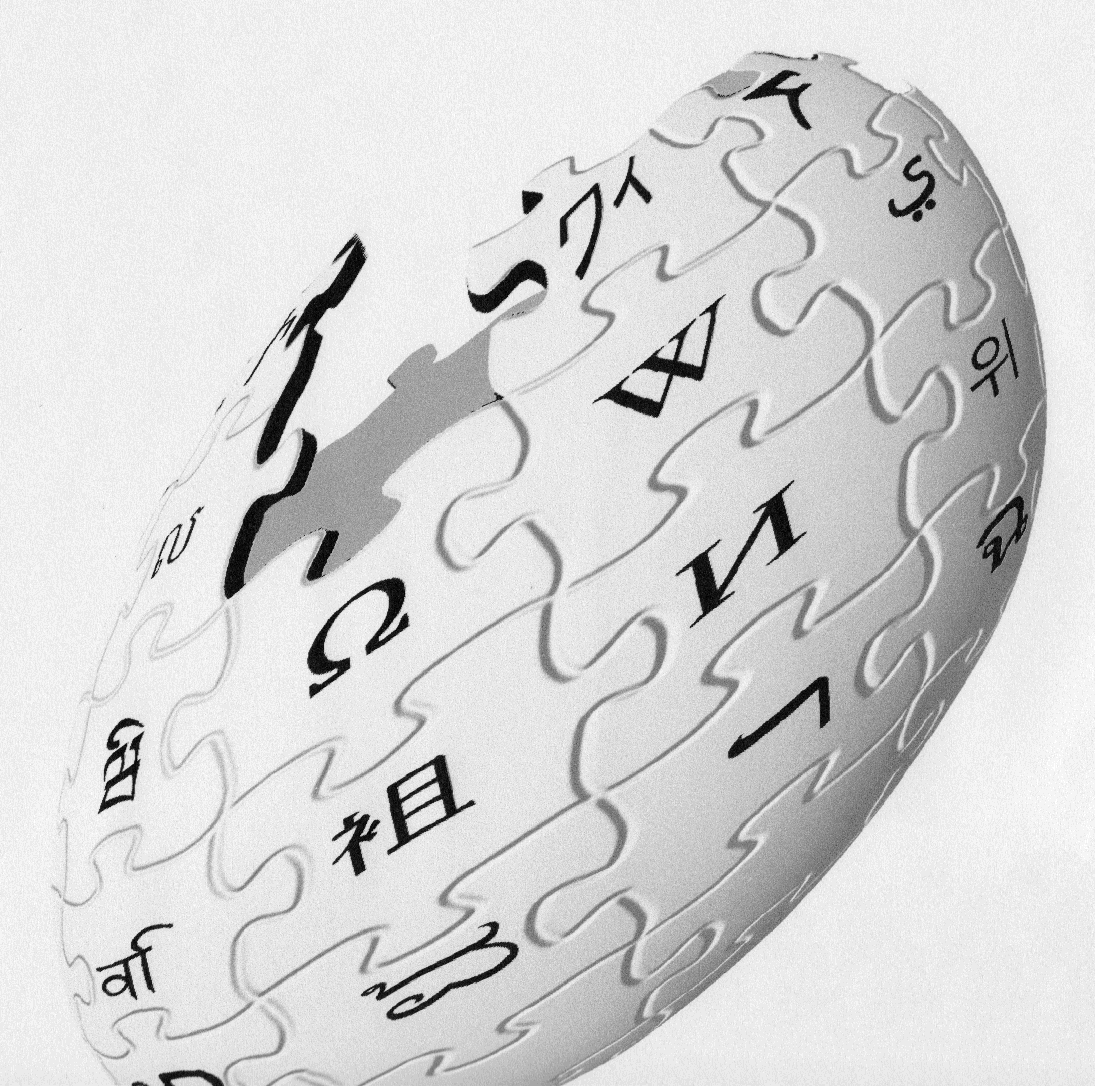 Demonstration of rolling shutter effect with one-dimensional CIS sensor moved rectangular to the moved object (image of Wikipedia globe).